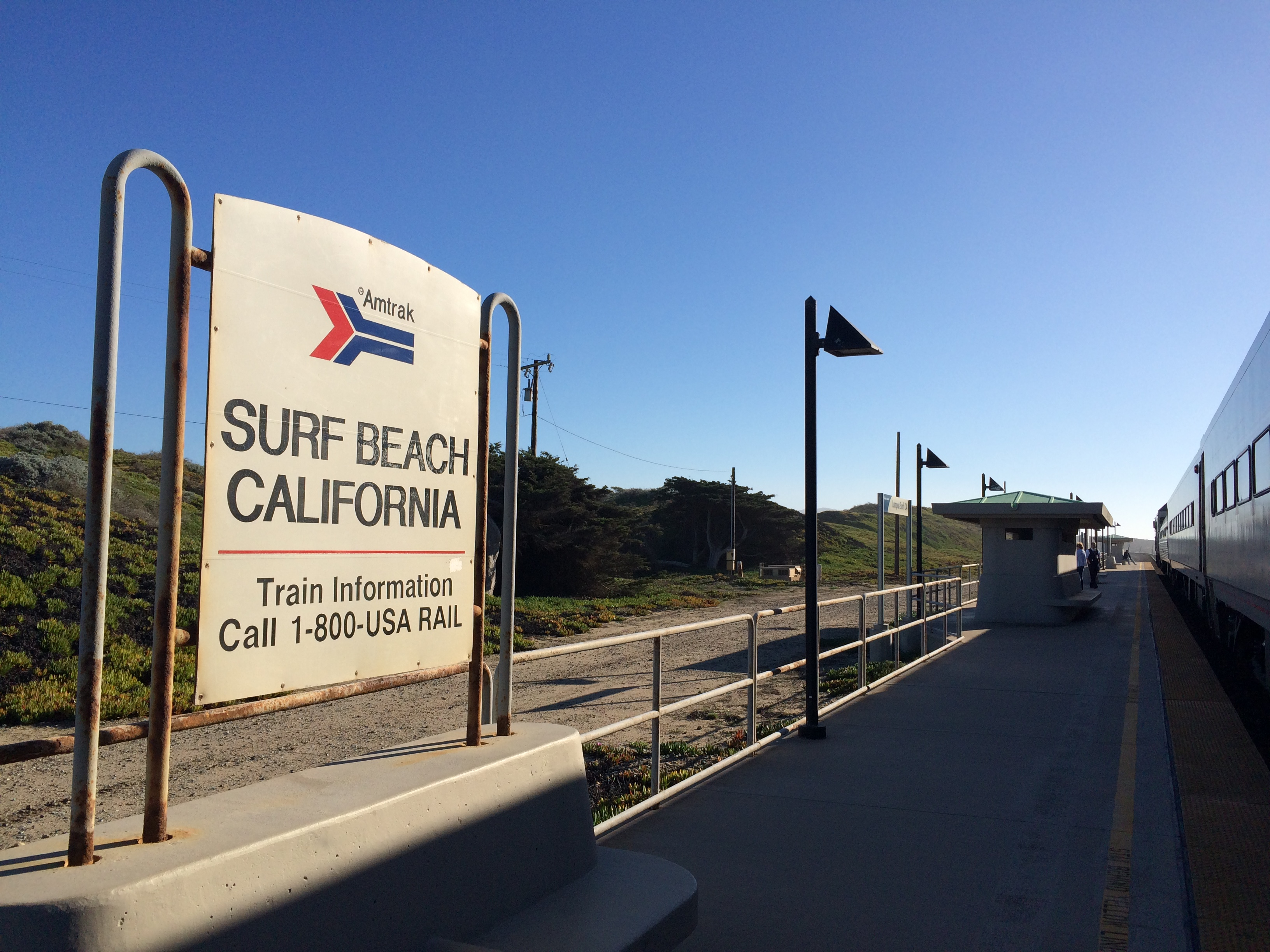 Surf Beach Amtrak train station, in the small community of Surf, California, west of the city of Lompoc.